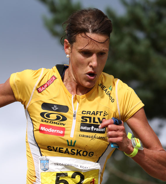 Annika Billstam at World Orienteering Championships 2010 in Norway